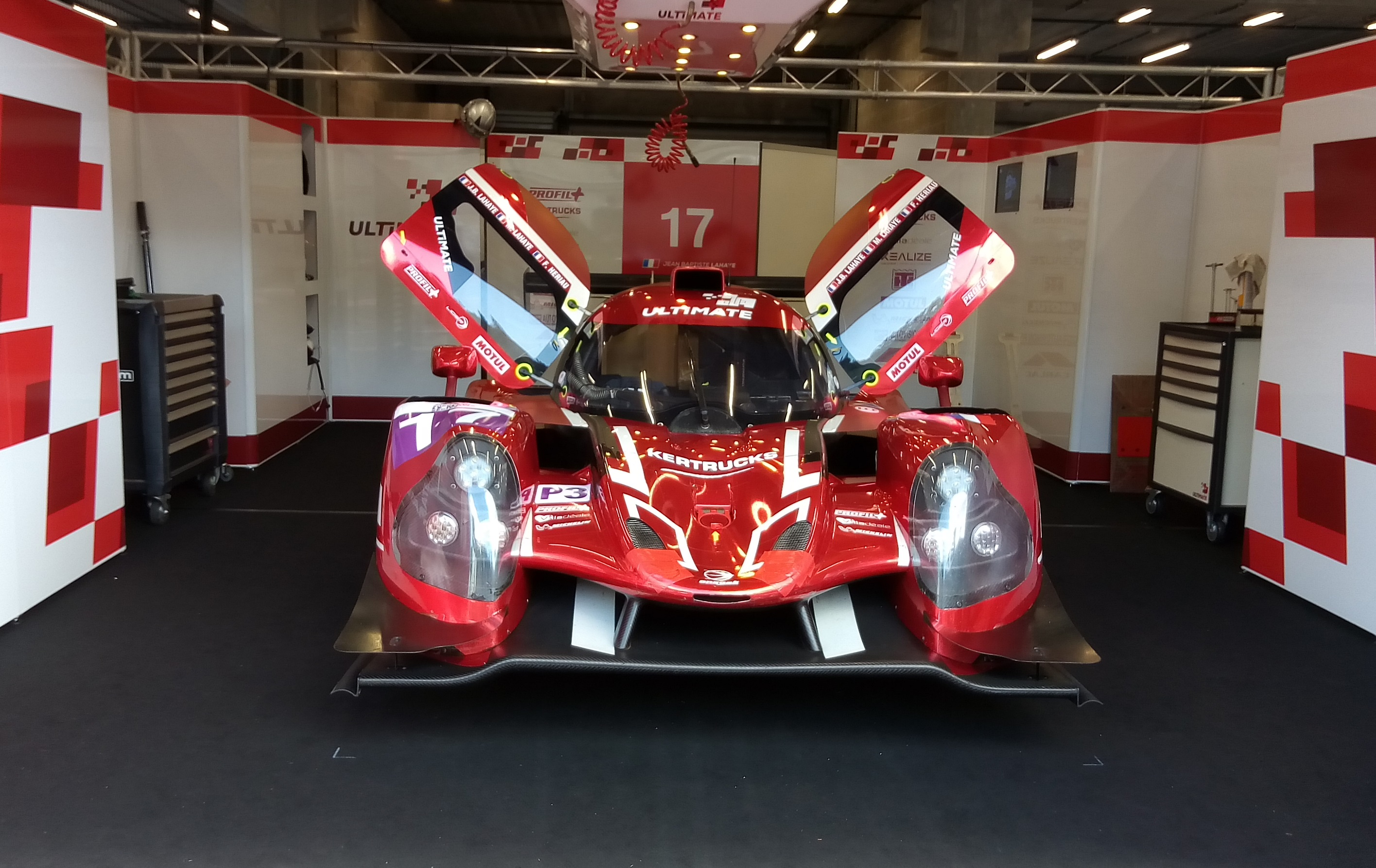 The Ultimate Ligier JS P3 as raced by Jean-Baptiste Lahaye, Mathieu Lahaye and Francois Heriau in the 2017 4 Hours of Spa.